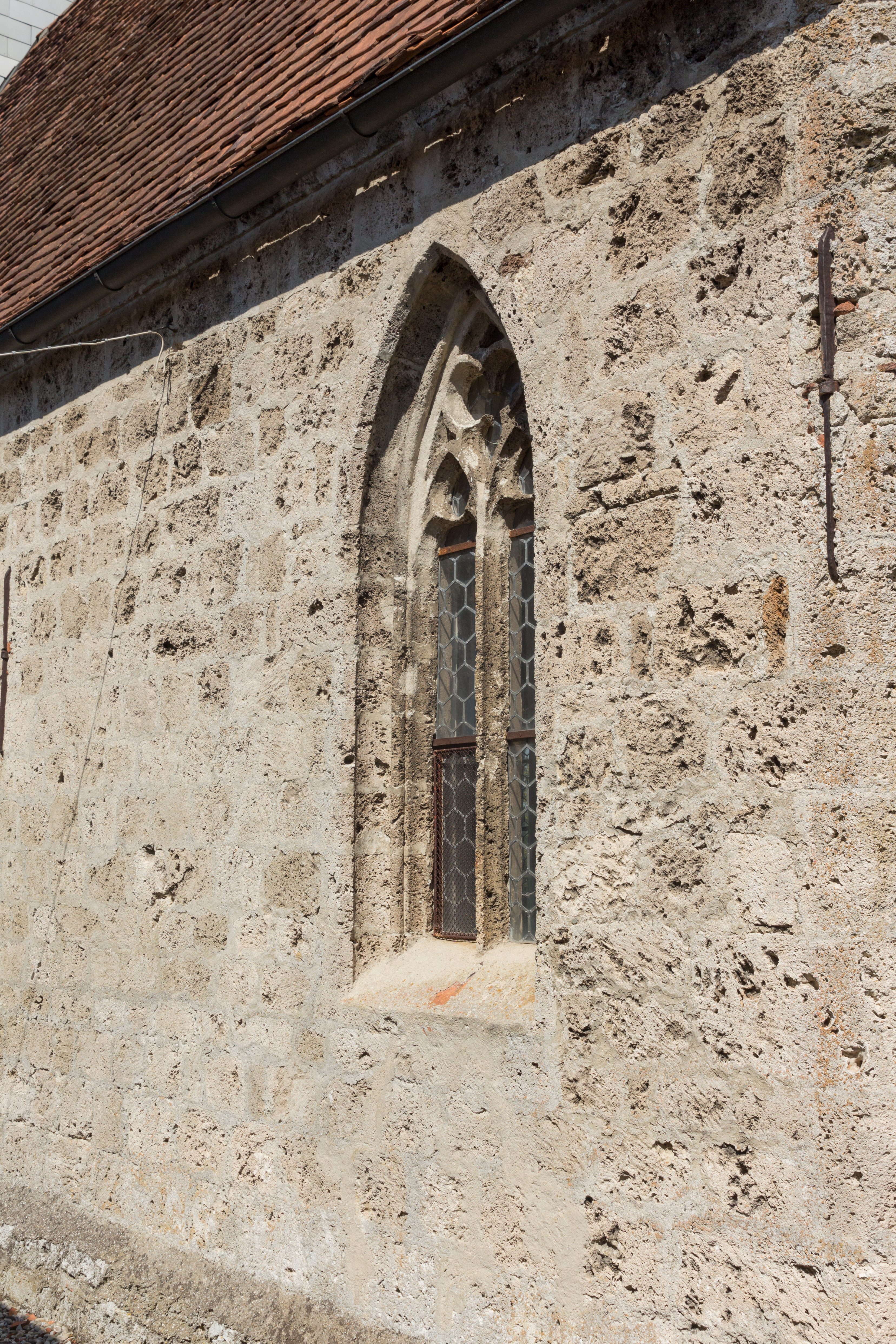 Subsidiary church Holy Cross (former St. Valentine), at Weilbach, Upper Austria.